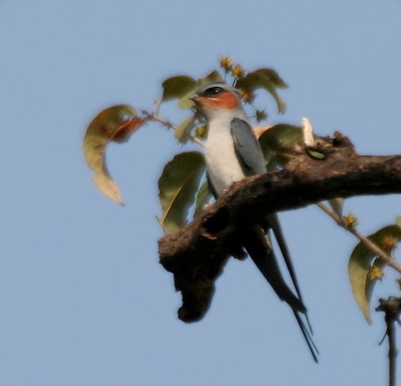 Crested Treeswift Hemiprocne coronata in Kawal Wildlife Sanctuary, Andhra Pradesh, India.